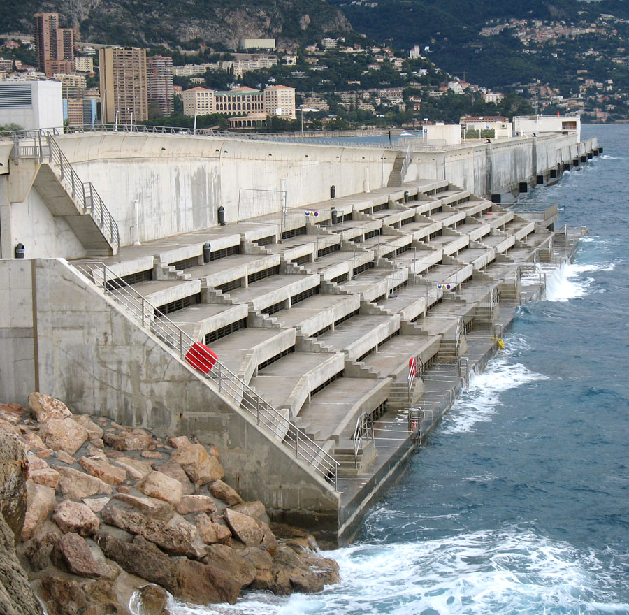 Concrete beach and quay of Port Hercule, Monaco